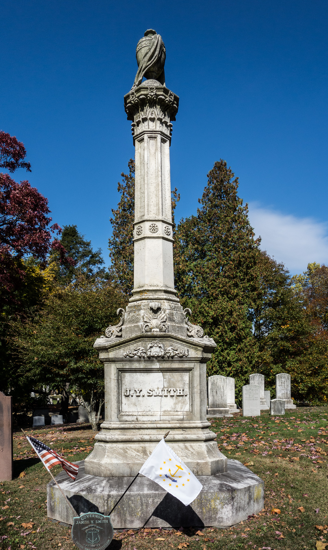 James Youngs Smith, governor of Rhode Island 1863-1866. Buried in Swan Point Cemetery.